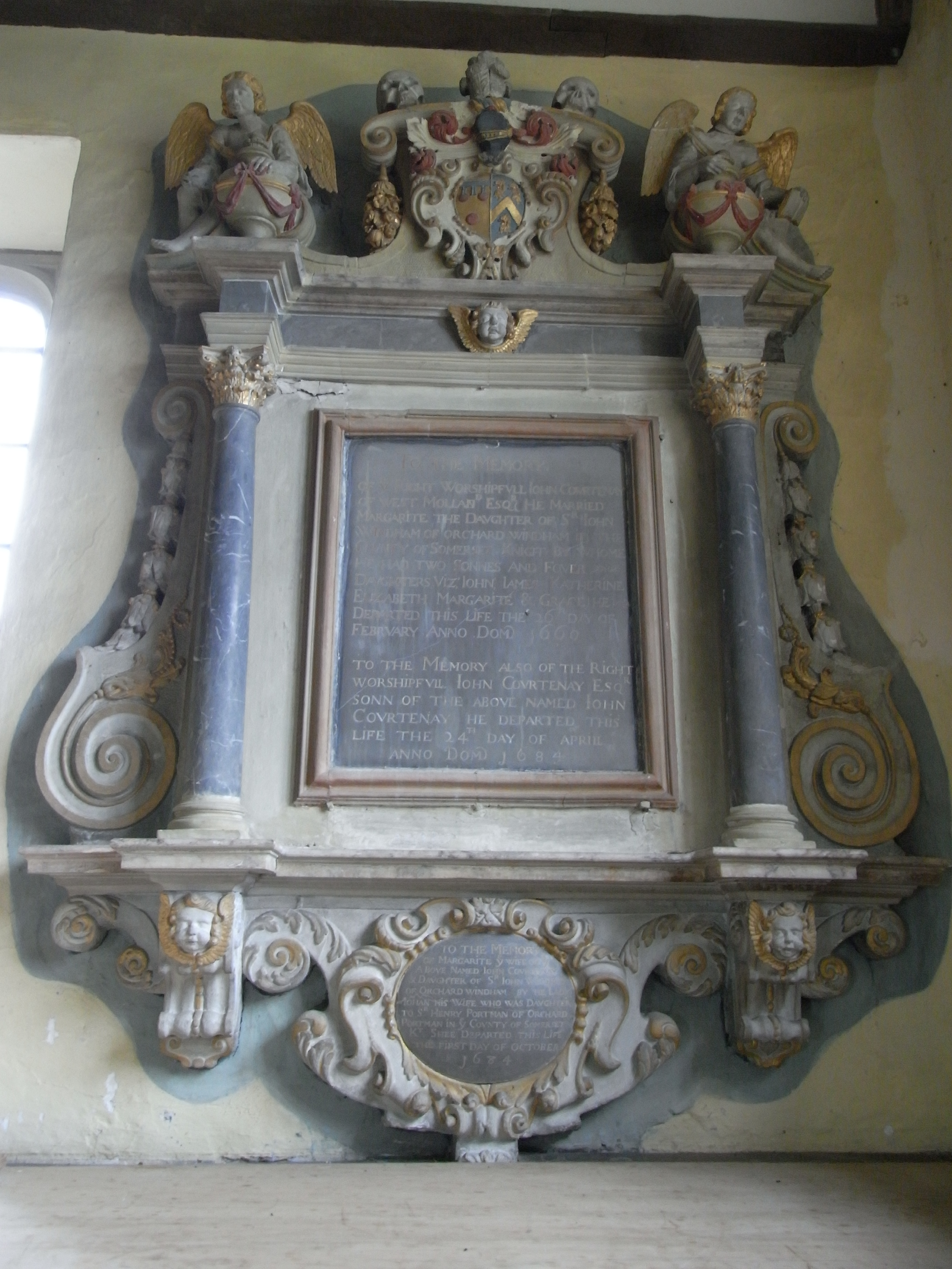 Mural monument to John Courtenay(d.1660), Molland Church, Devon.